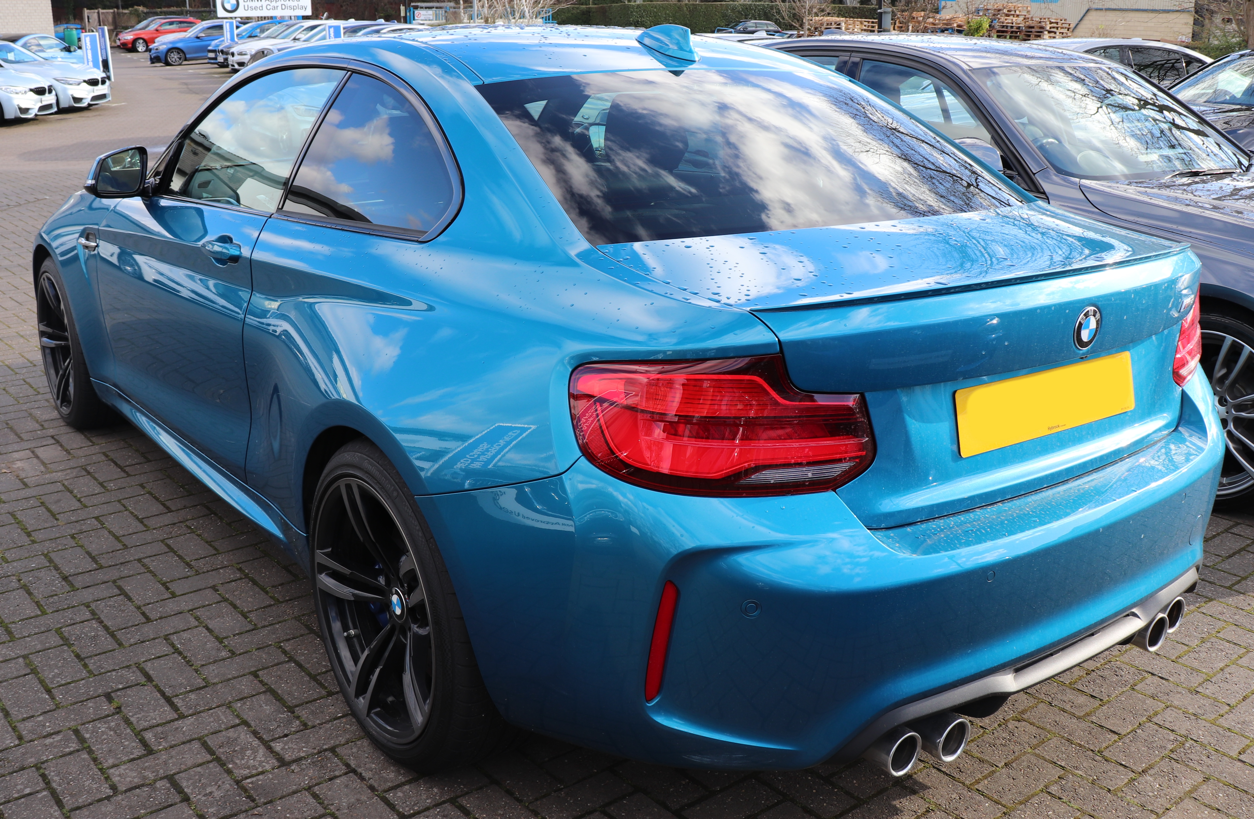 2017 BMW M2 Automatic 3.0 Rear Taken in Leamington Spa